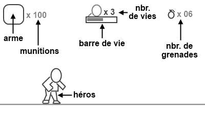 Interface of LSP Games' video game CT Special Forces (Game Boy Advance)